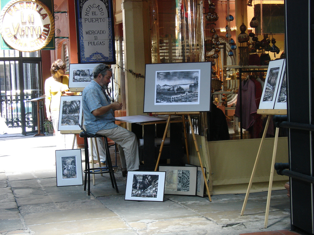 Montevideo